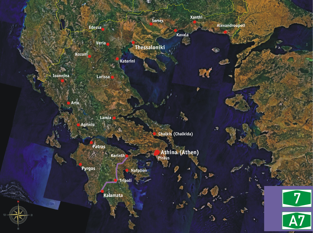 Course or track of Greek Motorway (avtokinetodromos) A7.